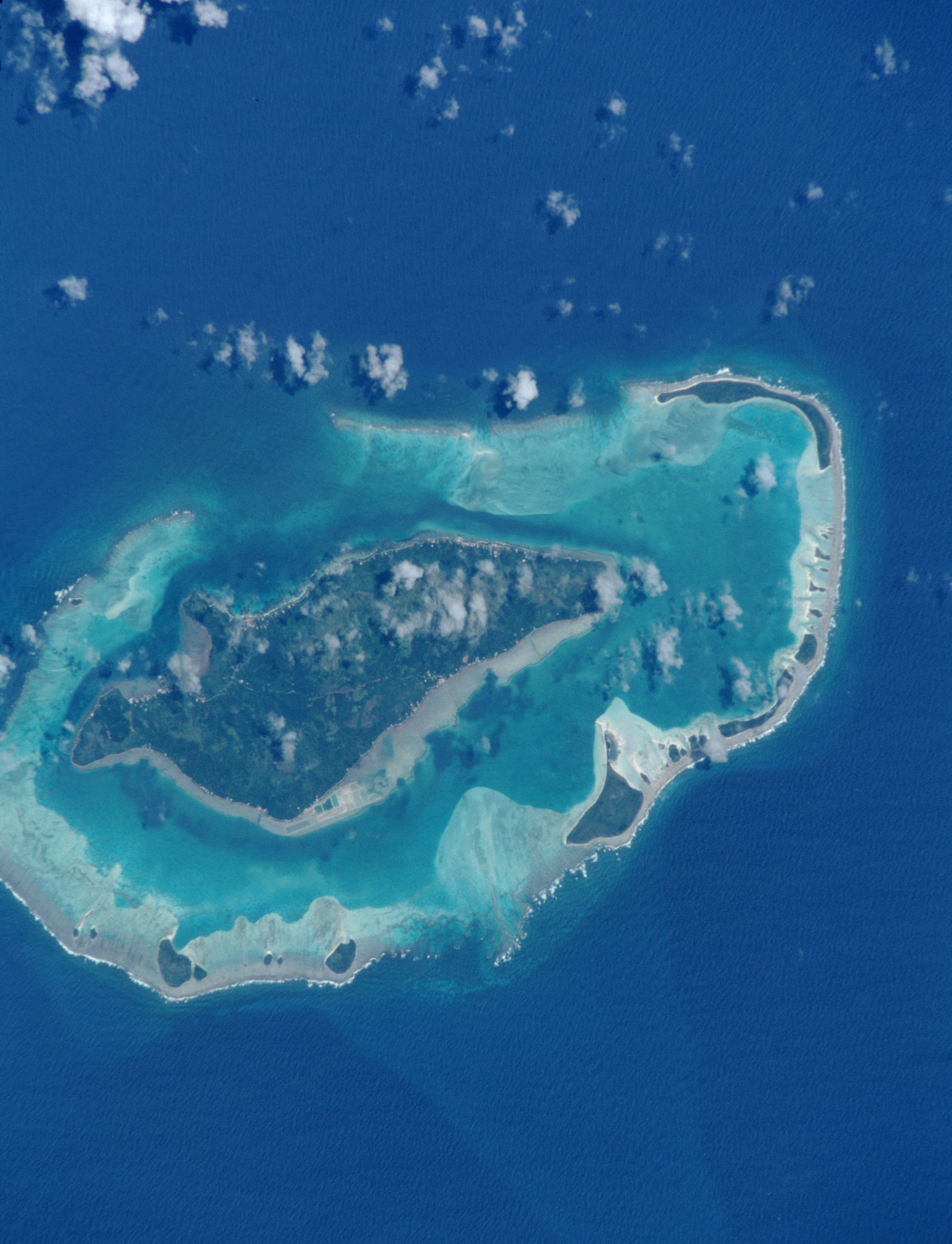 NASA astronaut image of Raivavae (Austral Islands, French Polynesia) in the Pacific Ocean